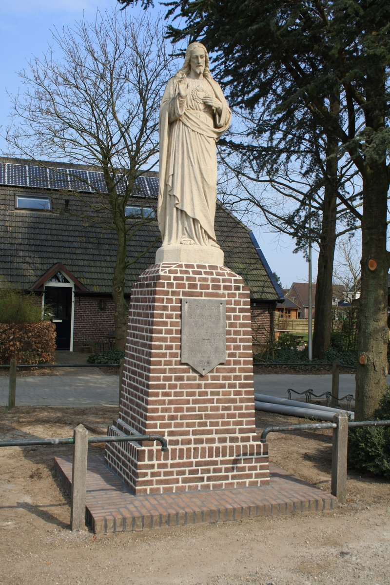 Church Boerhaar (Overijssel)